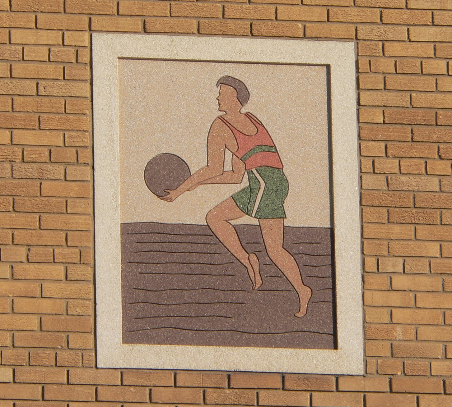 Sioux City Municipal Auditorium, now part of the Tyson Events Center, in Sioux City, Iowa: terra-cotta panel east of center on south side.